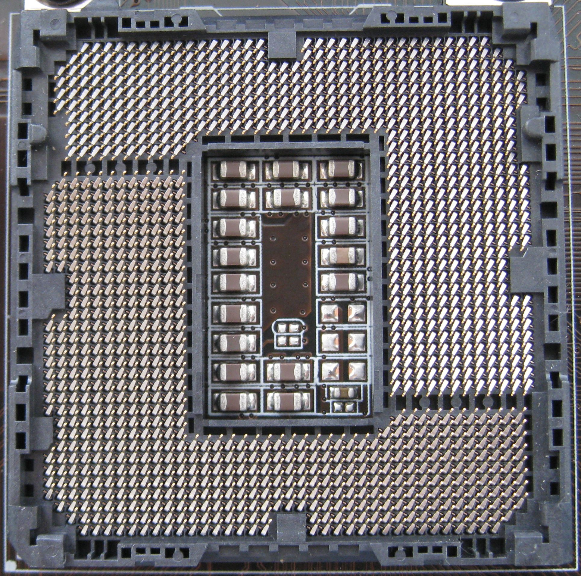 Intel Socket 1155 photo